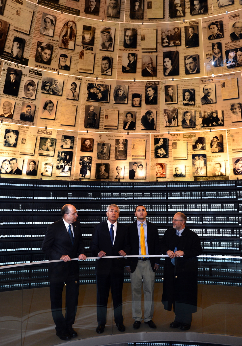 Secretary of Defense Charles Hagel visit today Yad Vashem (Israel's official memorial to the Jewish victims of the Holocaust) memorial with Israeli Minister of Defense Moshe "Bogie" Ya'alon, he was escorted by Dr. Robert Rozett from Yad Vashem. Photo Credit: Matty Stern/U.S. Embassy Tel Aviv